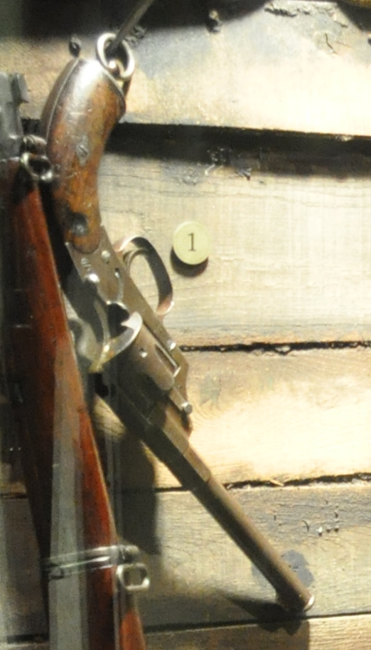 J. P. Sauer Model 1879 Single Action Reichsrevolver on display at the National Firearms Museum.